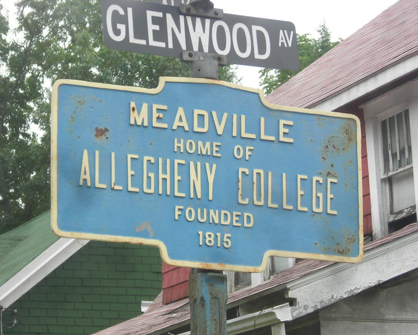 A pseudo-Keystone Marker for Meadville, Pennsylvania, mentioning Allegheny College. It does not appear to be a legitimate Keystone Marker